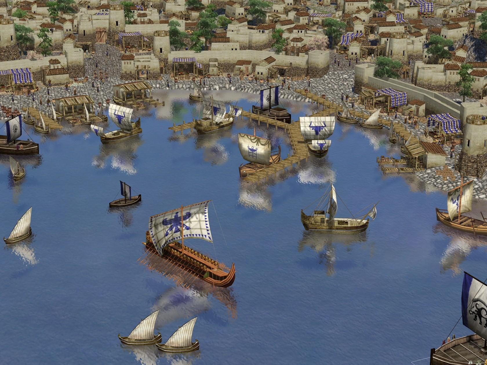 screenshot oa.d game